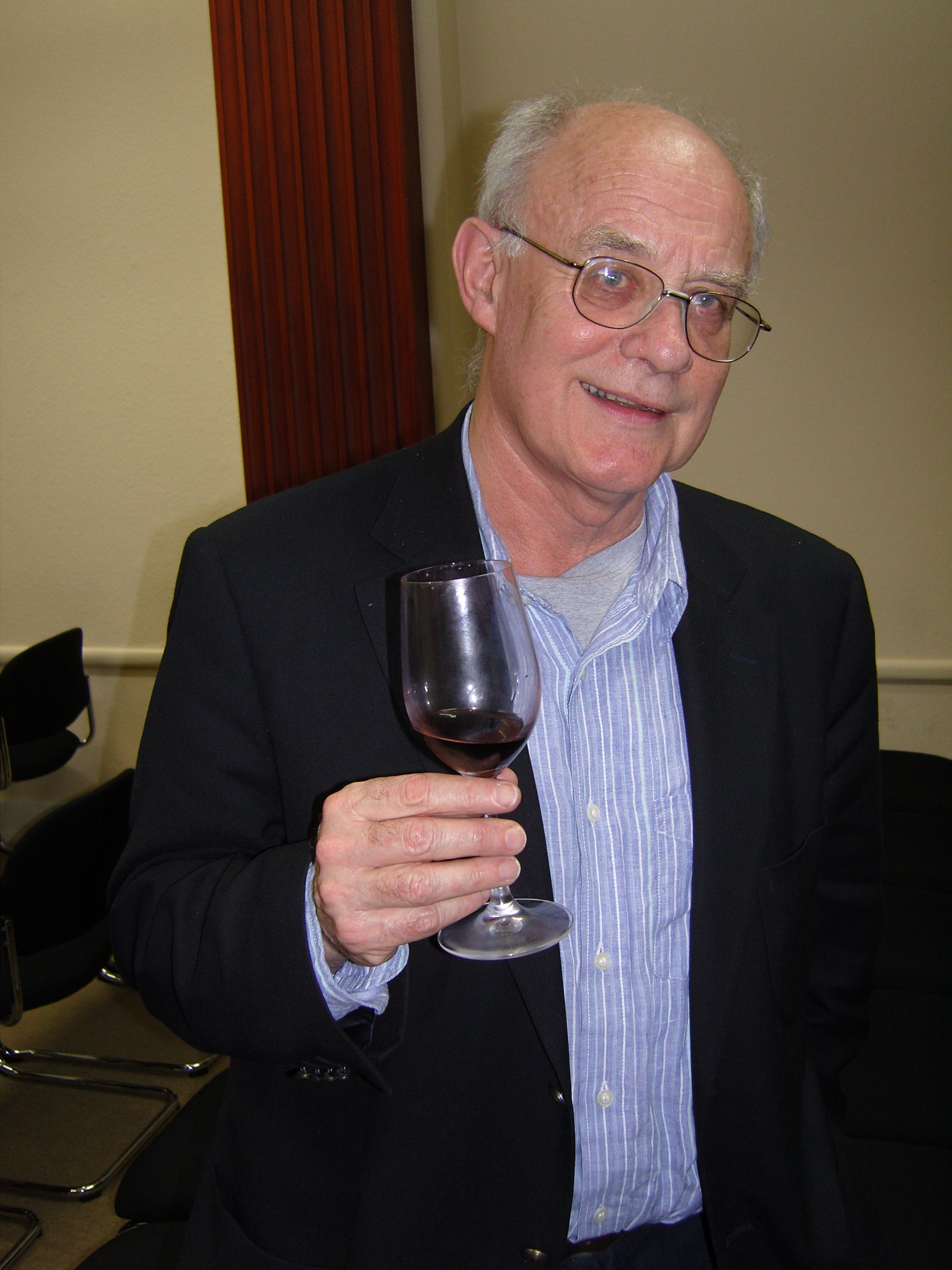 Angus MacIntyre at the Hausdorff Research Institute for Mathematics in Bonn, Germany